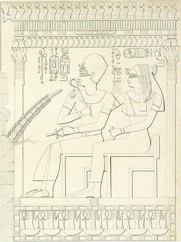 Scene from a tomb in Abd-el-Qurna showing Merytre with her son Amenhotep II.